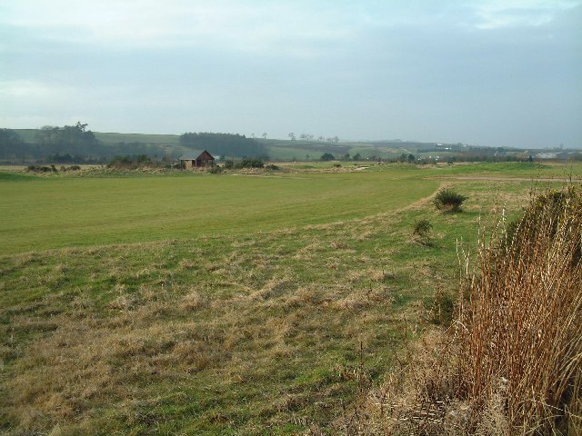 Fairway on Strathtyrum golf course. Fairway and shelter hut on one of St Andrews' many golf courses